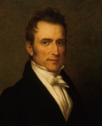 John McLean, Postmaster General and Justice of the Supreme Court. Collection of the Supreme Court of the United States. (cropped at source)